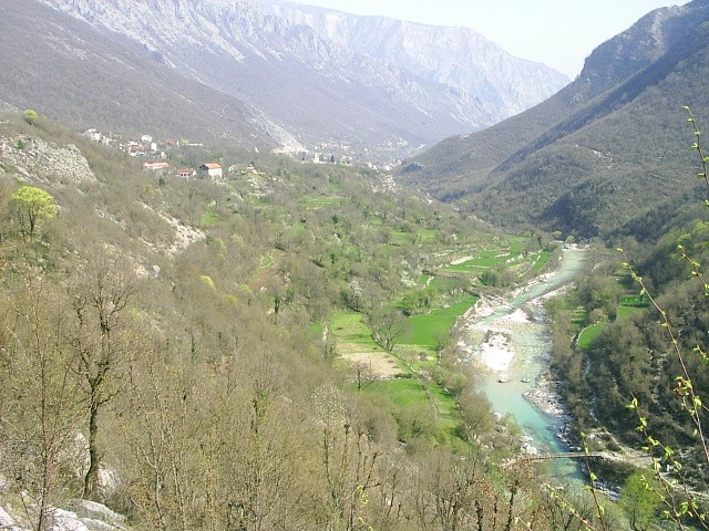 Dreznica river canyon in the Čabulja mountains, Bosnia and Herzegovina